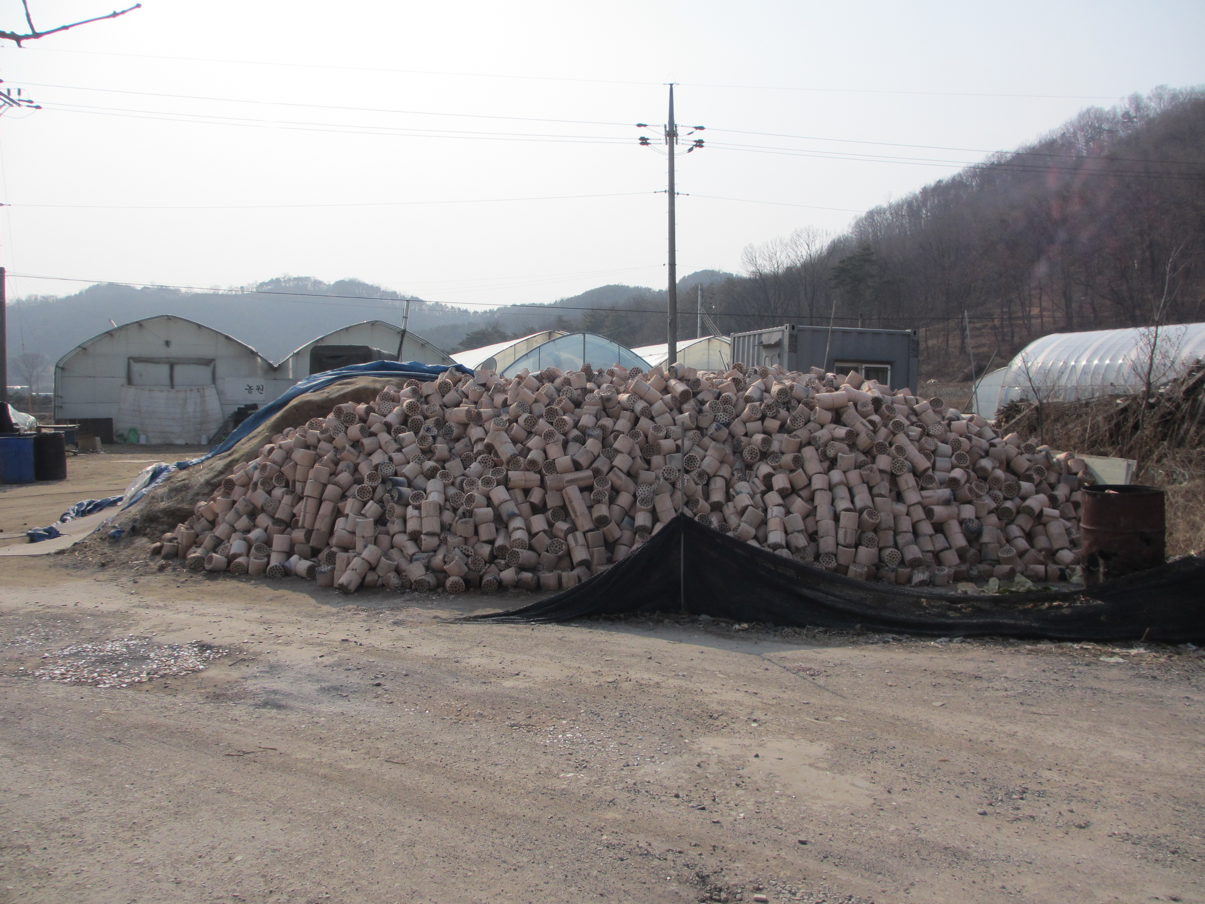 Used Yeontan (coal briquettes used in South Korea) ashes.